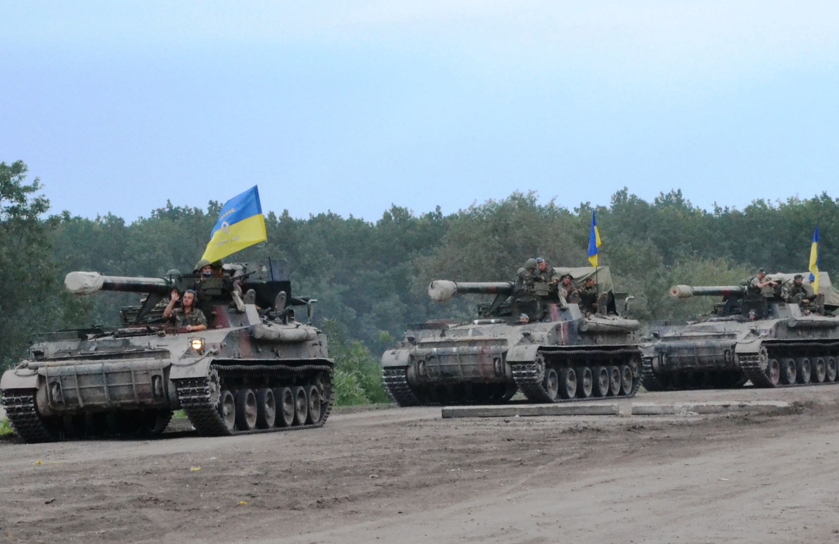 Anti-terrorist operation in eastern Ukraine (War Ukraine).